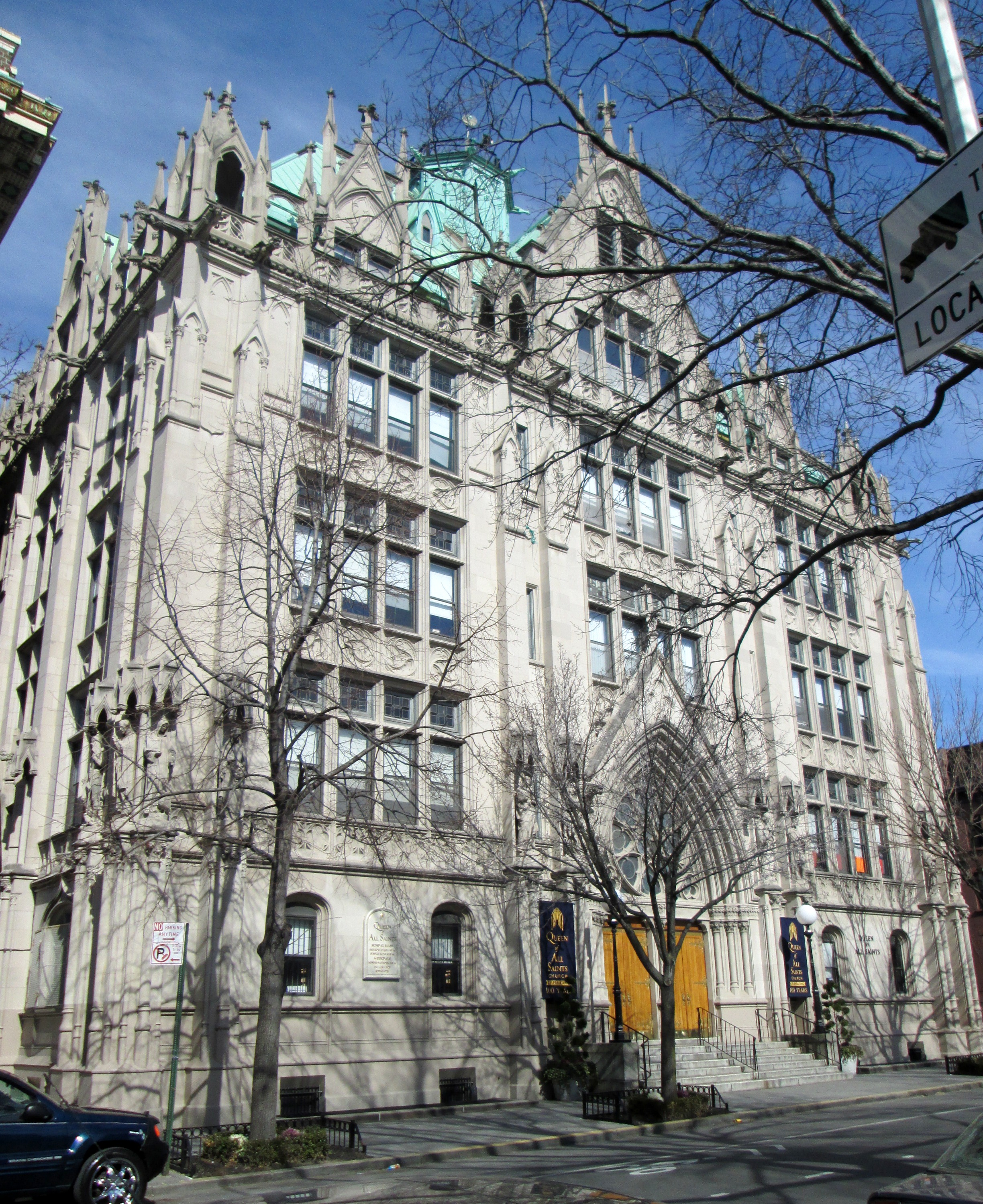 The Queen of All Saints Roman Catholic Church at 300 Vanderbilt Avenue on the corner of Lafayette Avenue in the Fort Greene neighborhood of Brooklyn, New York City was built in 1910-13 and was designed in the Gothic Revival style by Reiley & Steinback. The church's school was built at the same time, but the apse of the church and the rectory weren't built until 1915. The parish dates from 1879 and was originally called St. John's Parish. The church is located within the Fort Greene Historic District. (Source: "Fort Greene Historic District Designation Report")